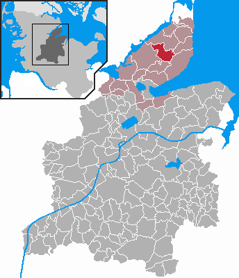 Locator maps of municipalities in Schleswig-Holstein - District Rendsburg-Eckernförde